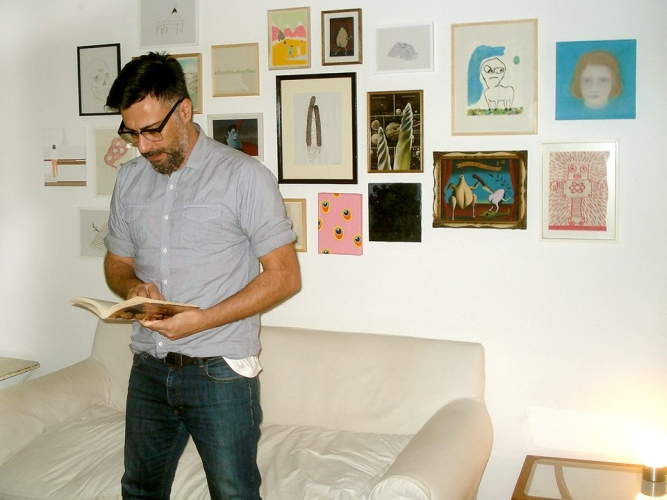 David Nahon